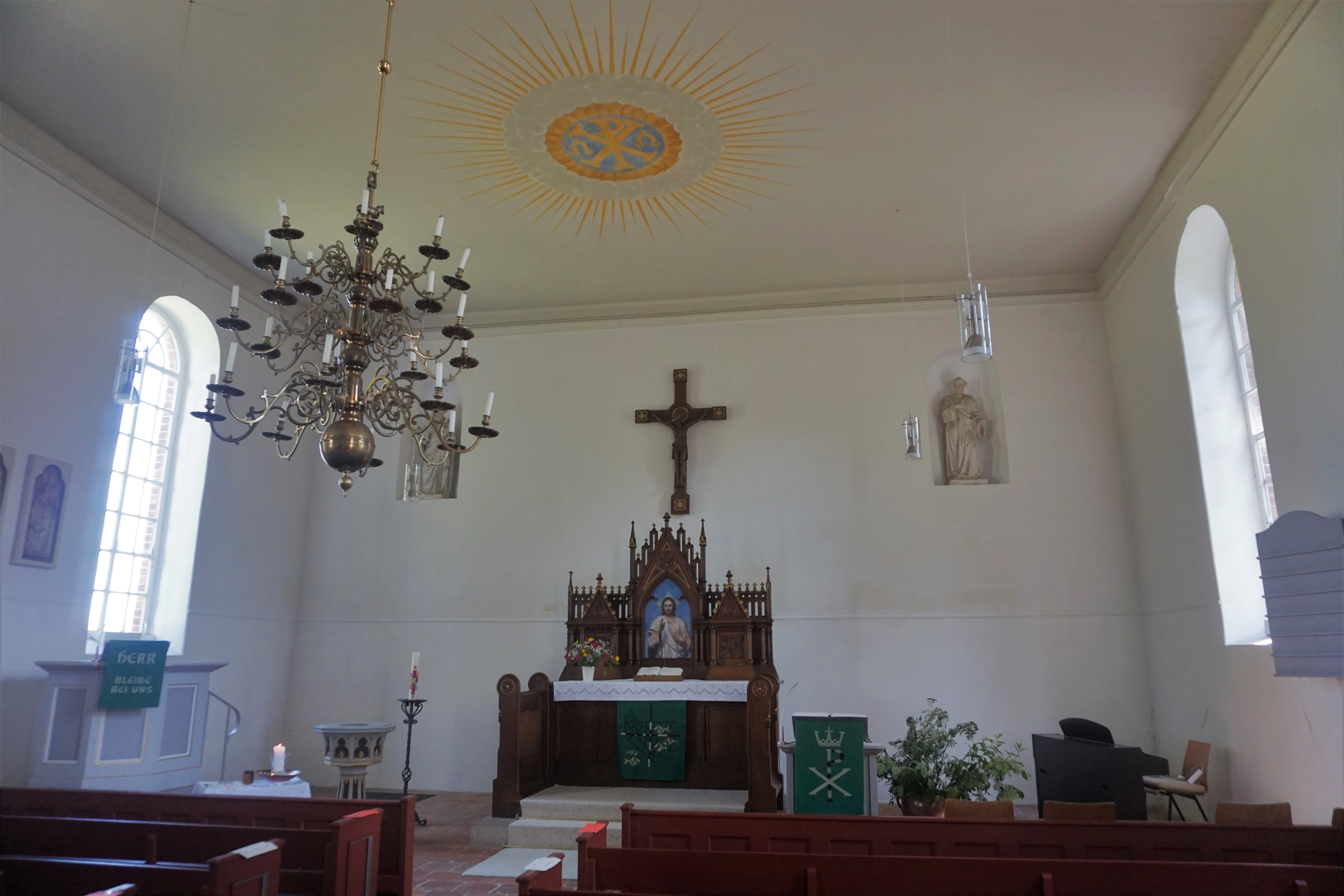 Interior of the church of Natendorf in the district of Uelzen.